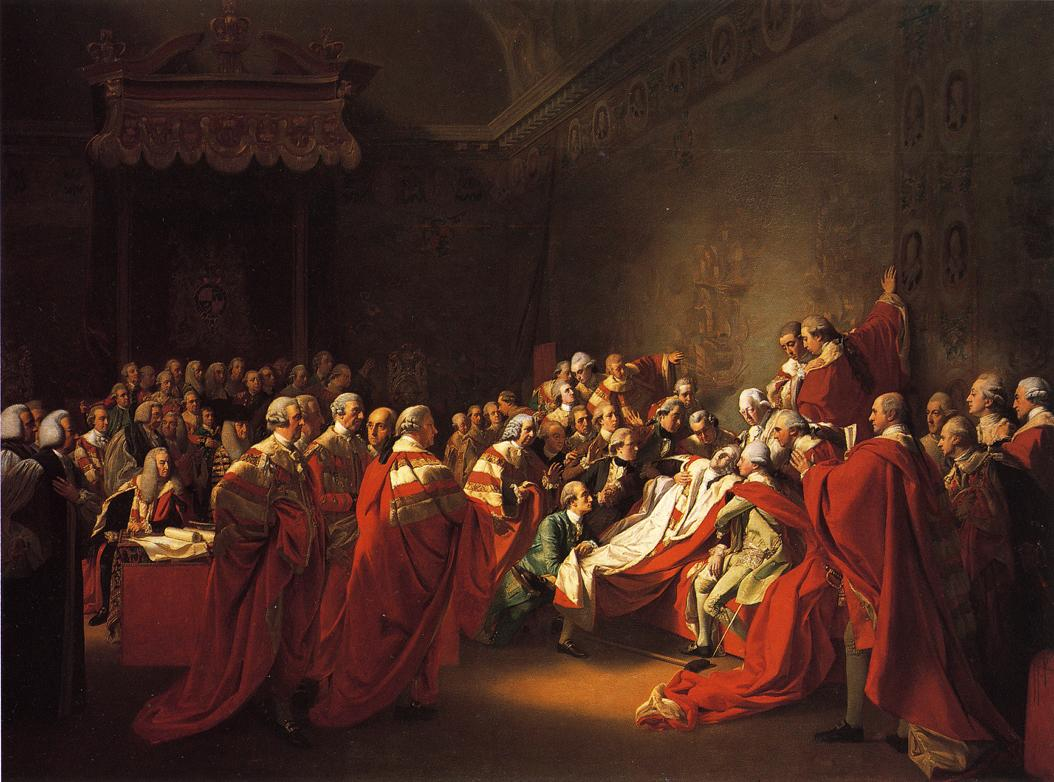 The Collapse of the Earl of Chatham in the House of Lords (1779-1780) by J.S. Copley Tate Britain